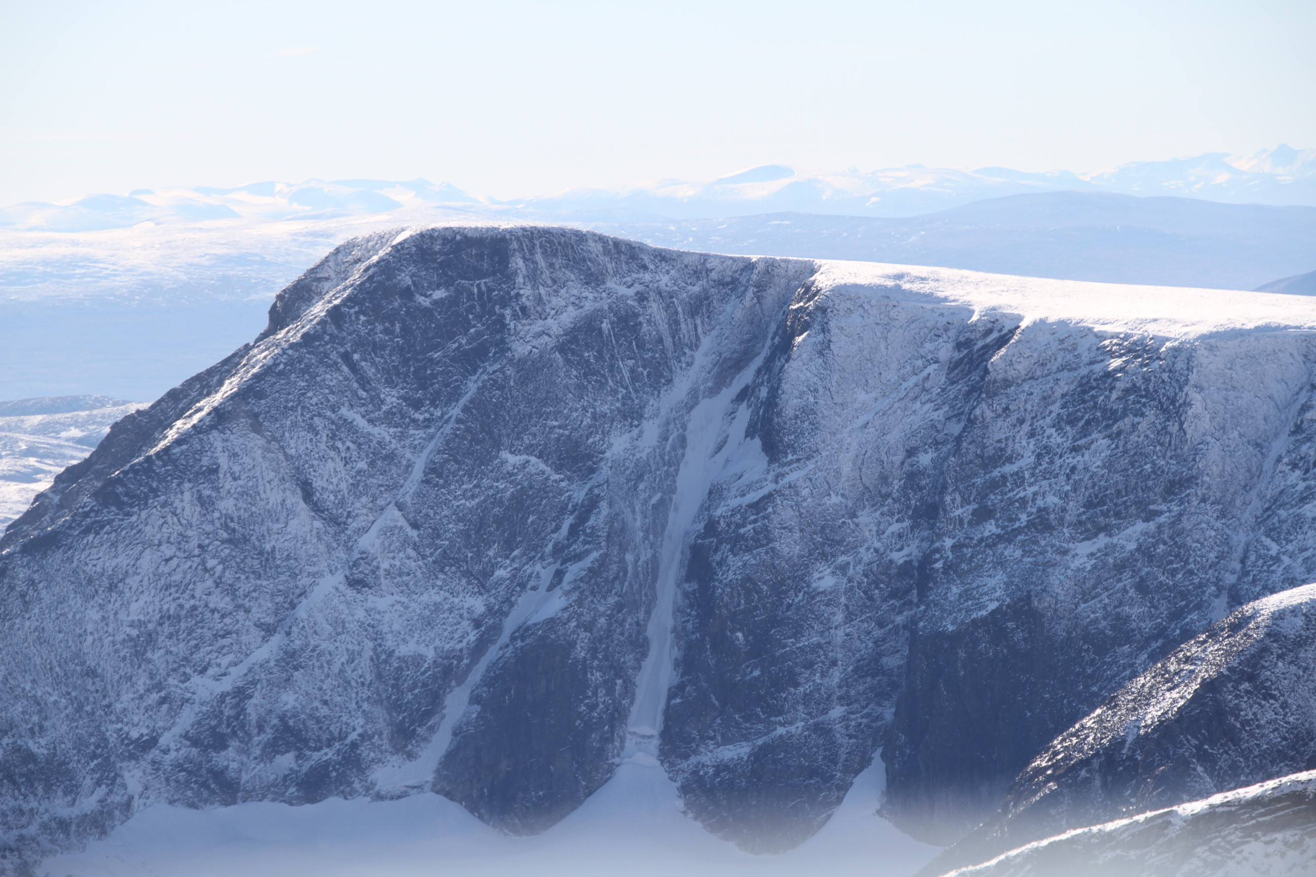 The mountain "Storestyggesvånptinden" is situated immediately Southwest of the "Snøhetta" massif. Dovrefjeld, Oppland county, Norway.